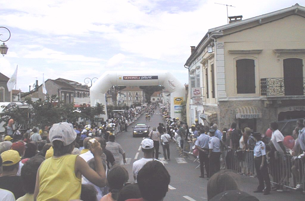 1999 Grande Boucle féminine internationale, stage 3. Arrival in Mussidan (Dordogne, France).